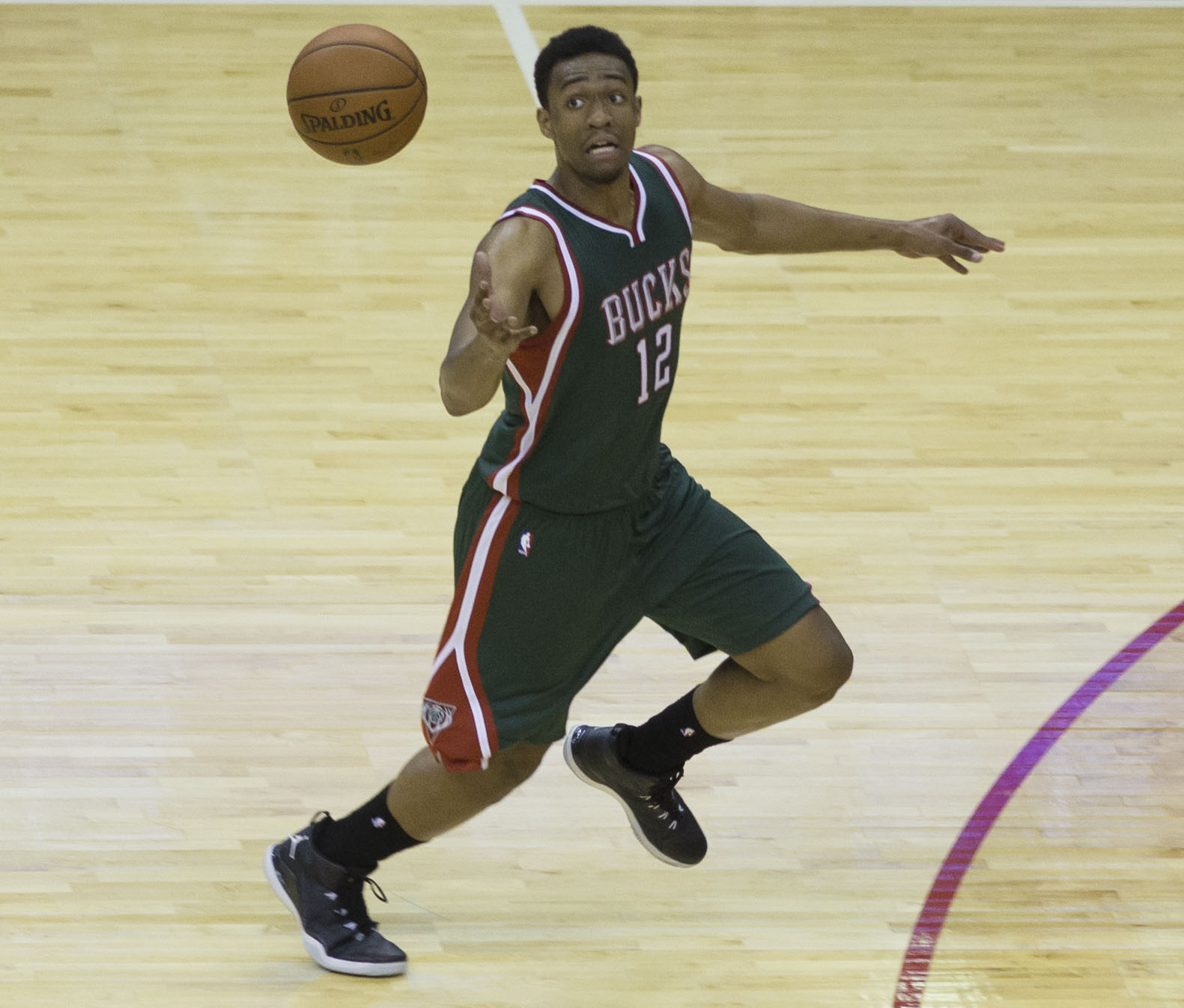 Jabari Parker playing for Milwaukee Bucks. Bucks at Wizards 11/01/14